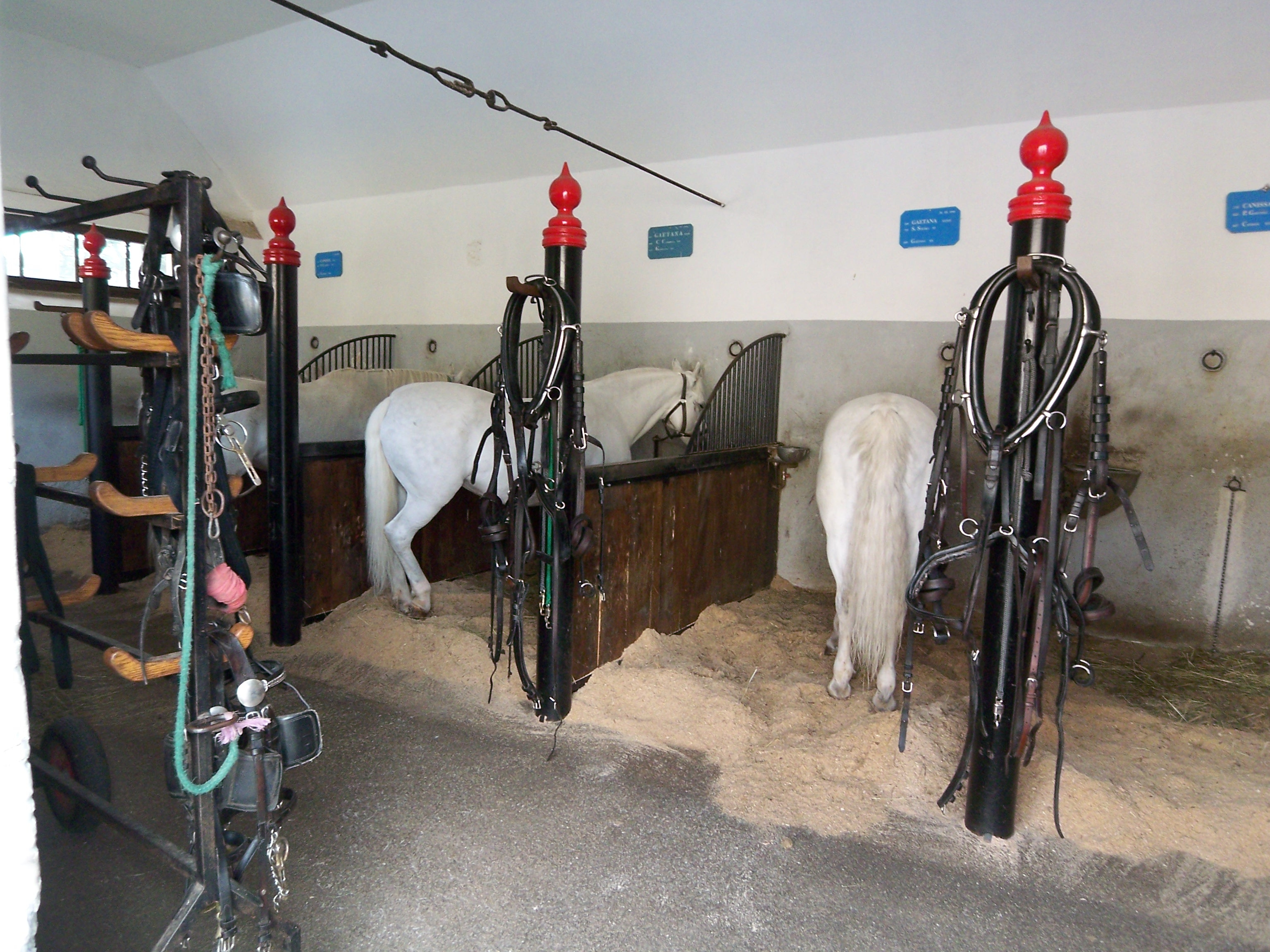 standing stable in a historic part of stud